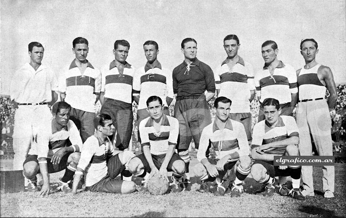 Club Gimnasia y Esgrima de La Plata, 1929 Argentine Primera División champion. Great scorer Francisco Varallo is seated second (from left to right).